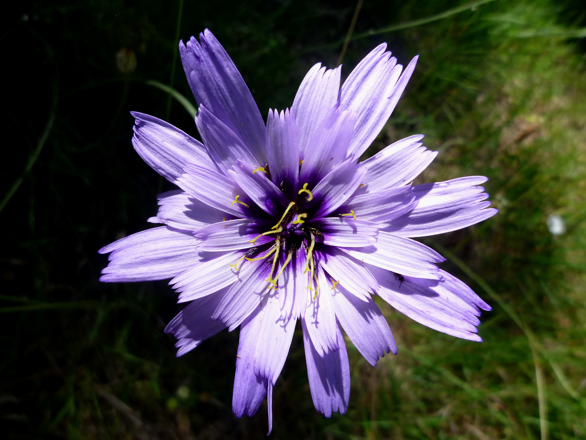 Catananche caerulea. In Torà (Segarra- Catalunya). On 580 m. altitude